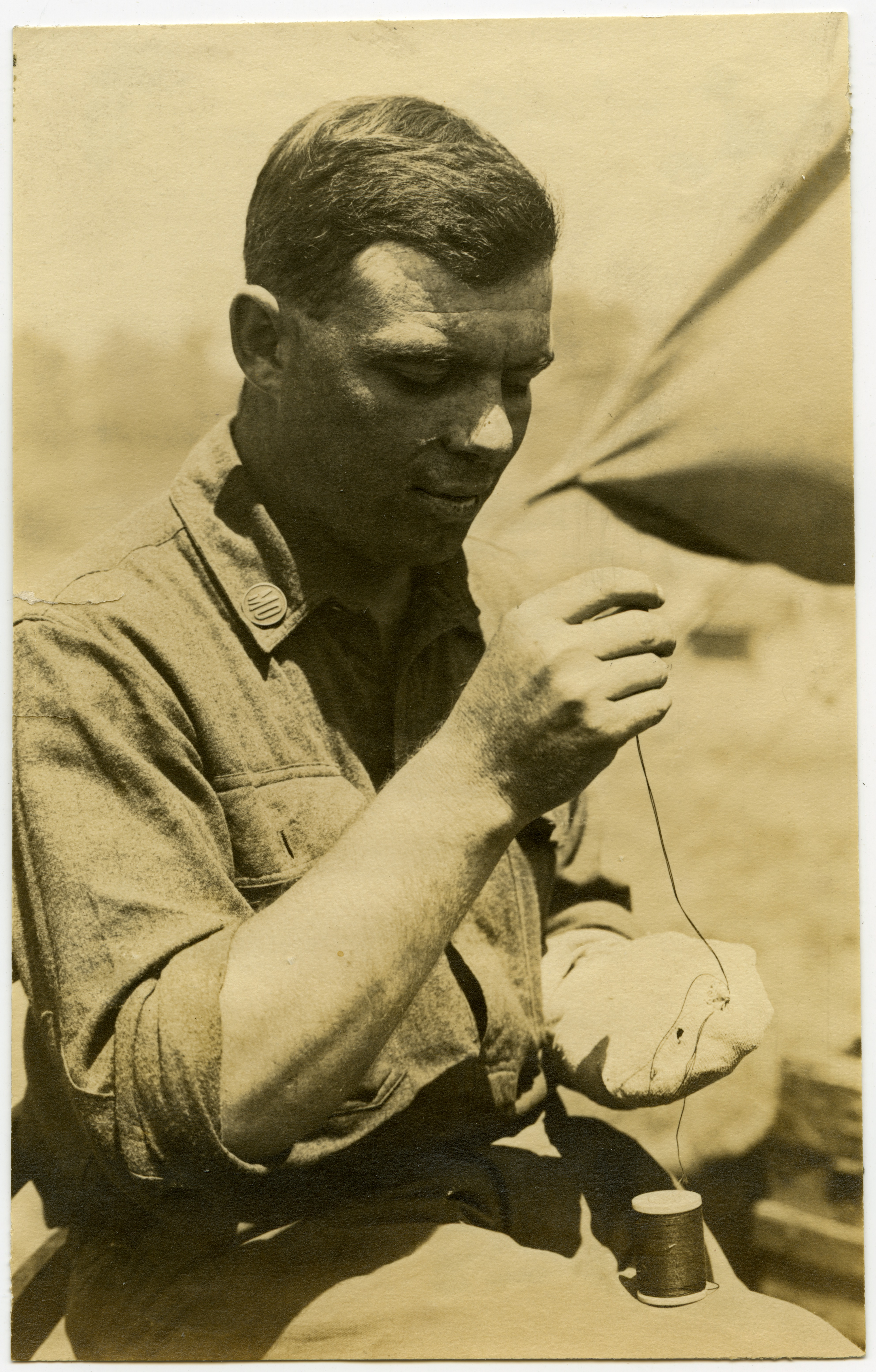 Vertical, sepia photograph showing a uniformed man using a needle and thread to sew a hole closed in a fabric object, possibly a sock, that is covering his left hand. A portion of a tent can be seen in the background of the image. Title: Soldier Using a Needle and Thread to Repair a Sock.